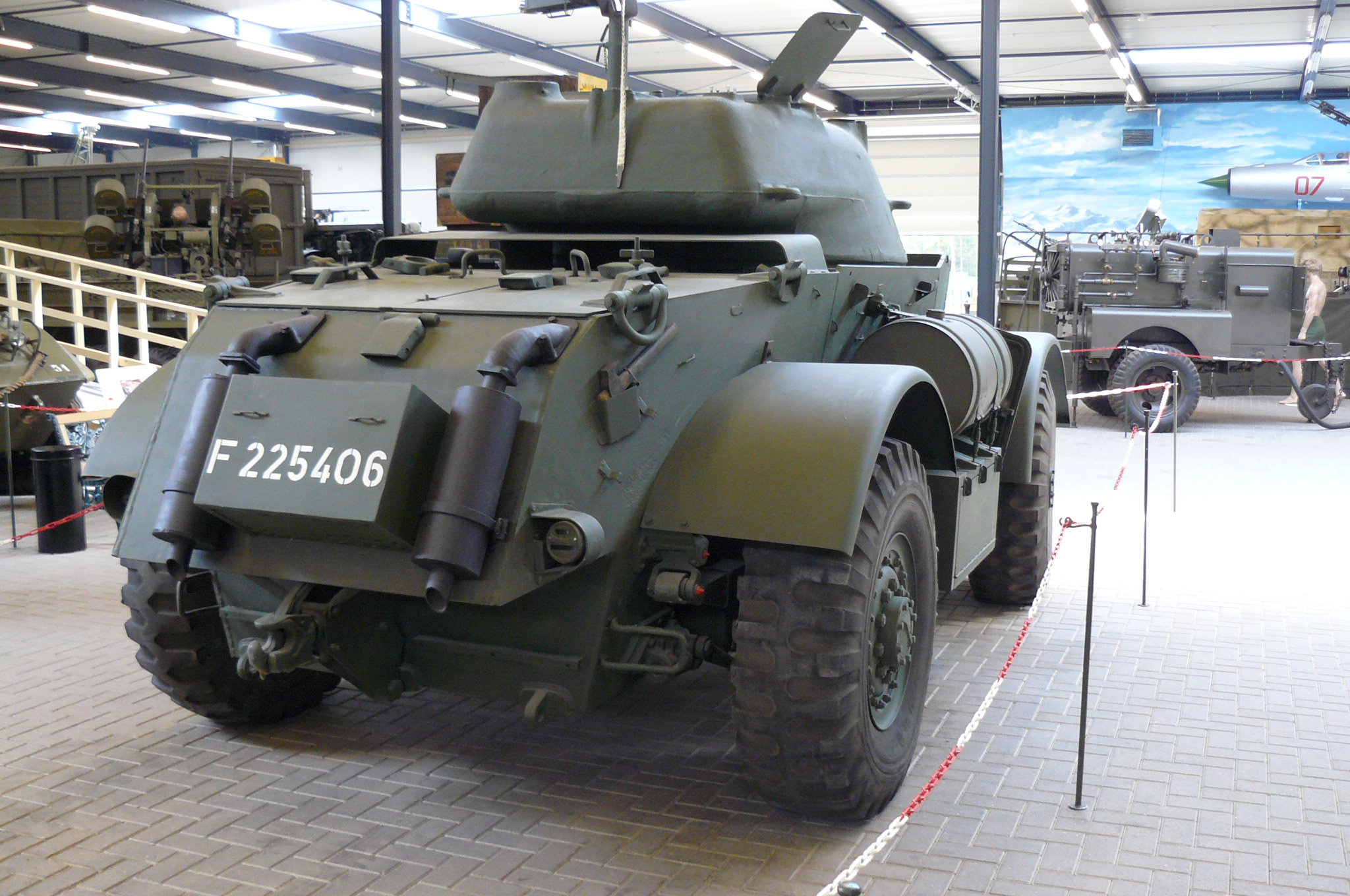 T17 armoured car / Staghound. Back of car, as seen at Liberty Park, Overloon, the Netherlands. Photo taken 21 May 2012